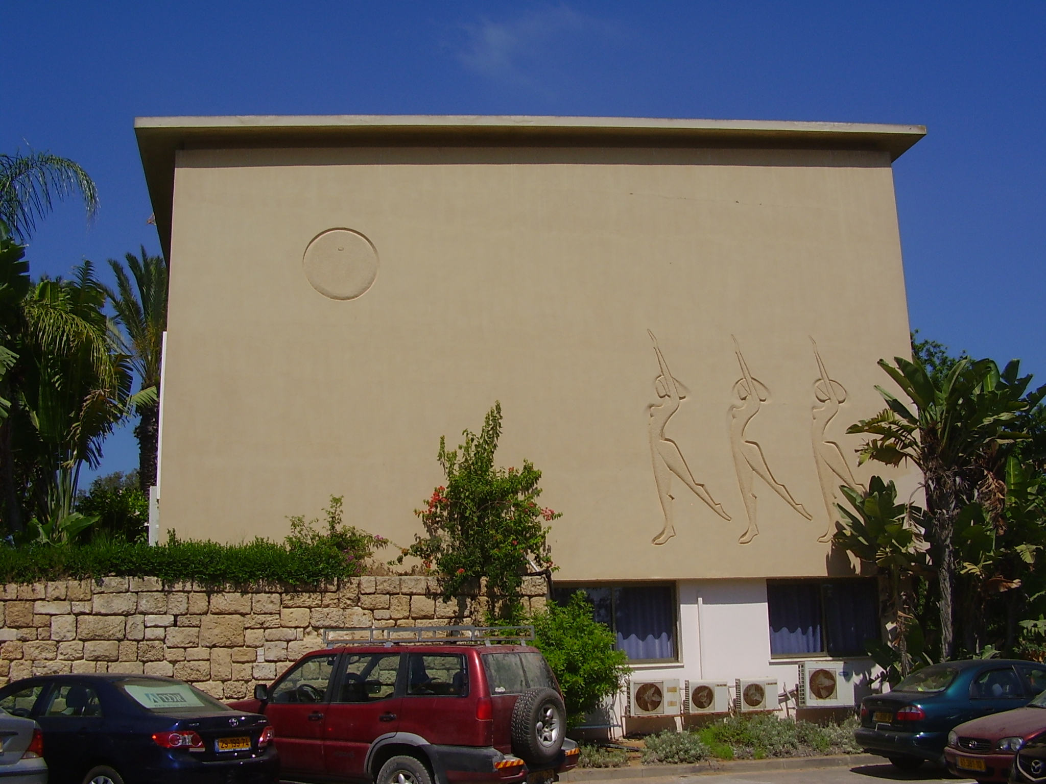 Wingate Institute